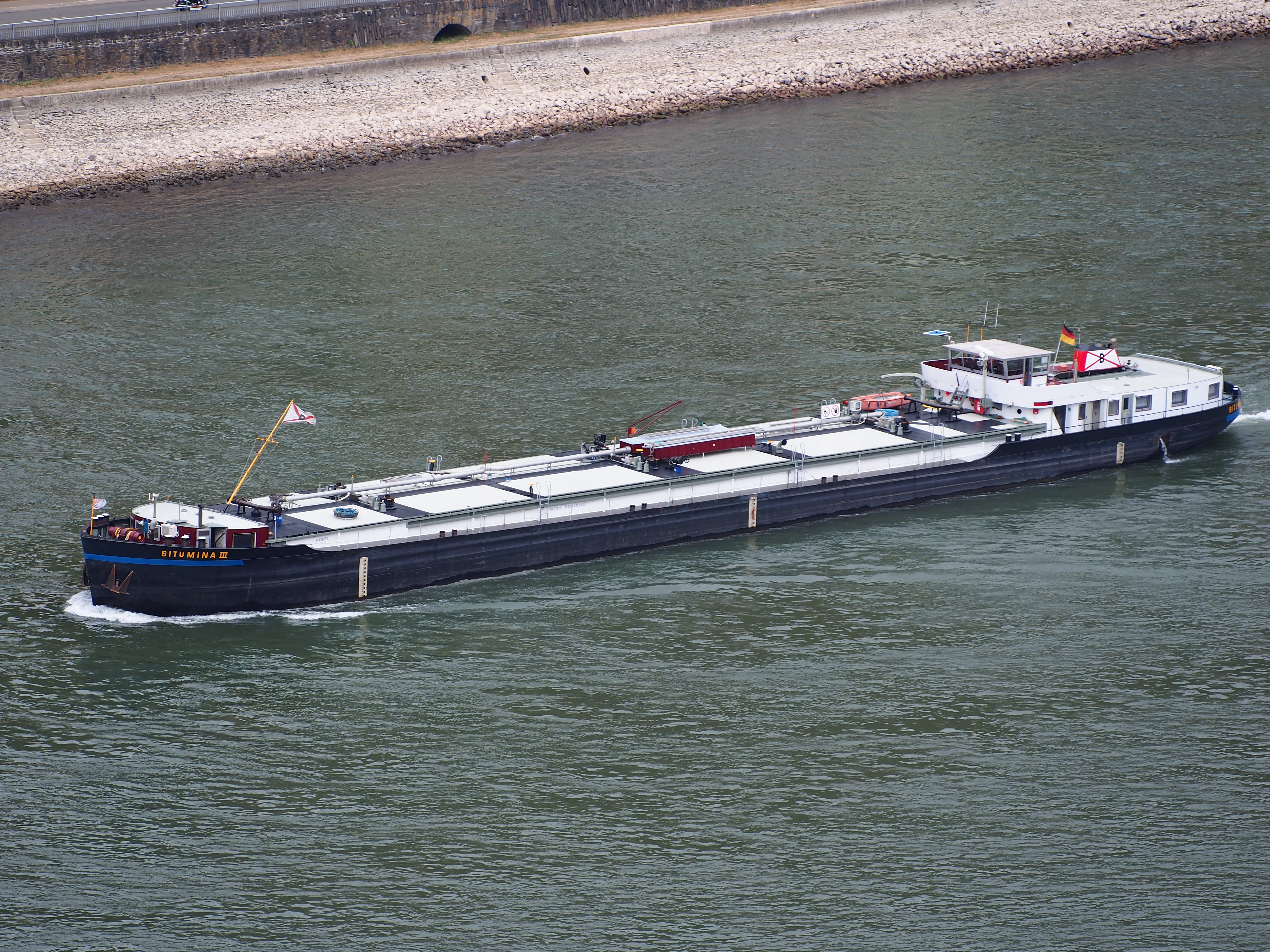 Photographed at the Rhine river, Germany.